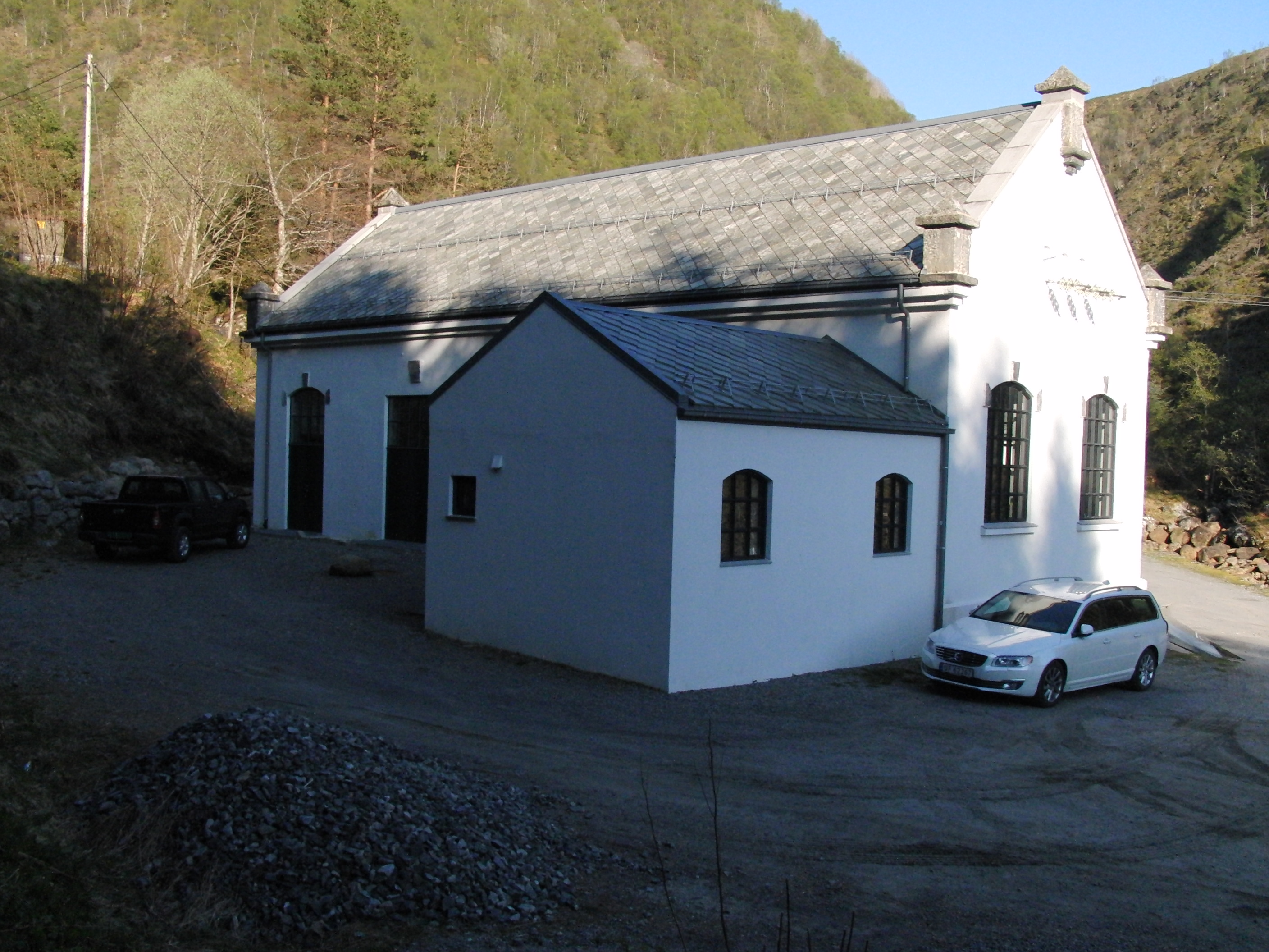 Det gamle Ulsteindal kraftverk